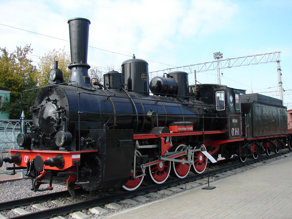 Steam locomotive Ov-841 Rumantsch: Паровоз Ов-841